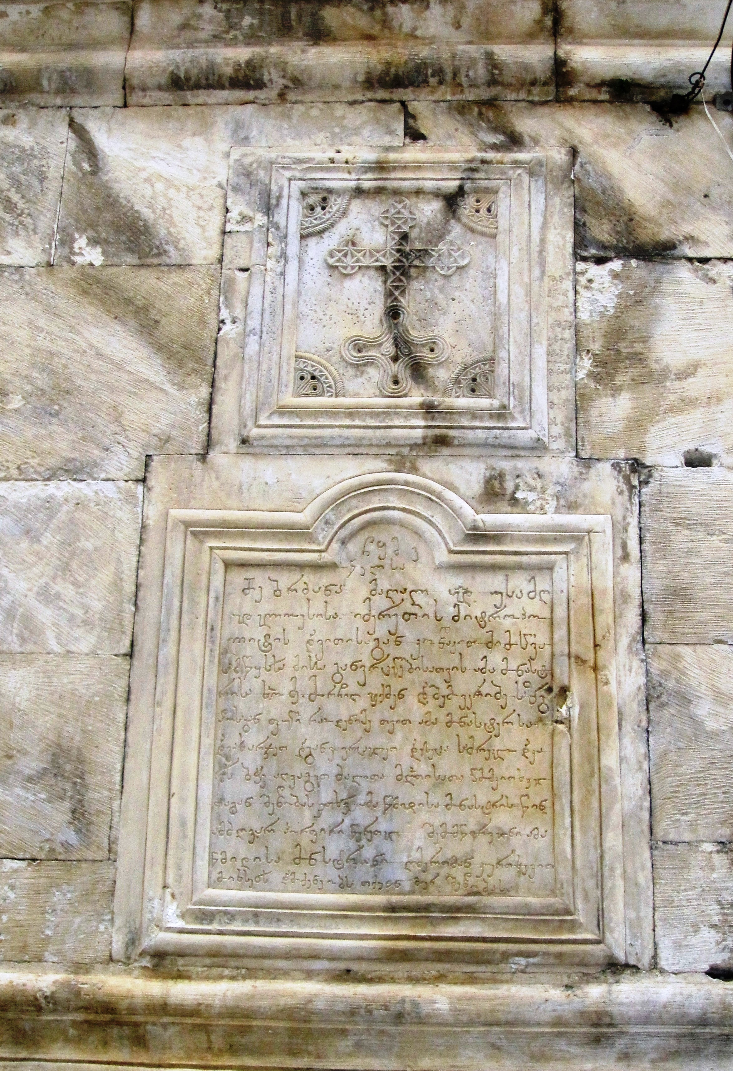 A Georgian inscription at Motsameta monastery dated to 1846